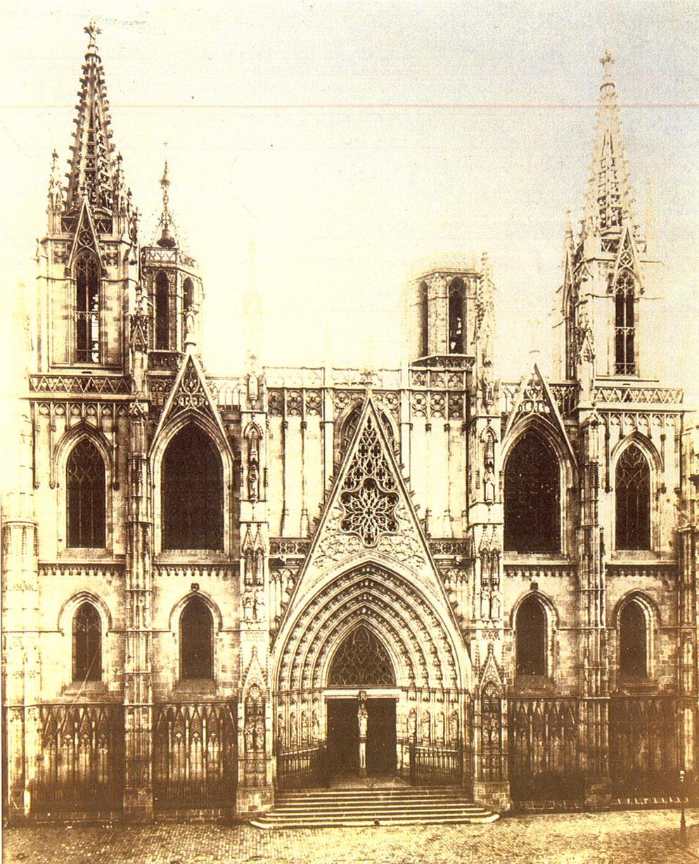 Main façade of the cathedral of Barcelona, ca. 1900, before the building of the central tower